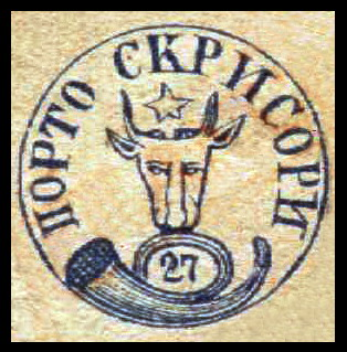 The first Romanian stamp, issued in the Moldavian Principality, 1858.